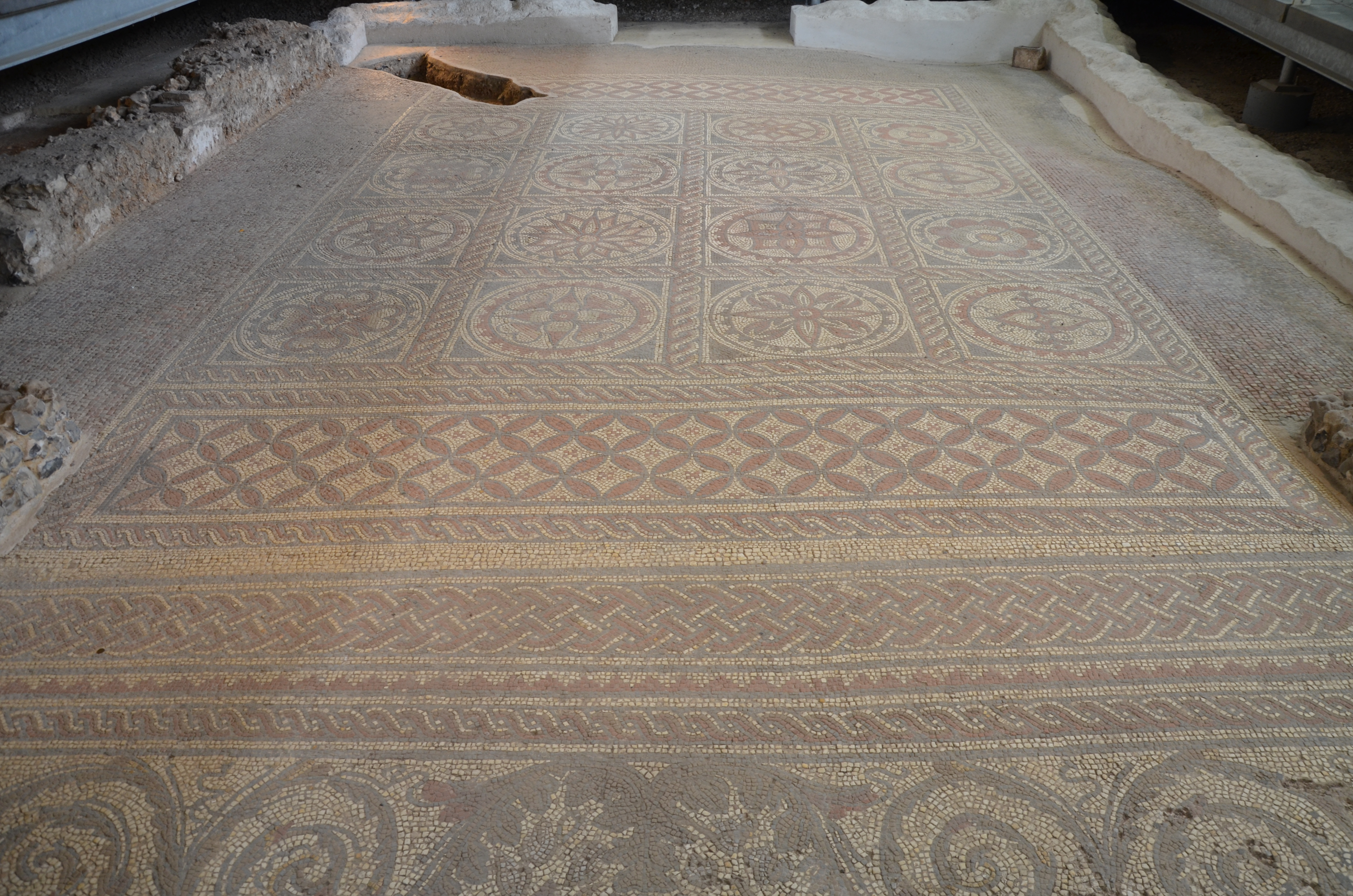 Mosaic with floral panels, around 180 AD, Verulamium, St Albans